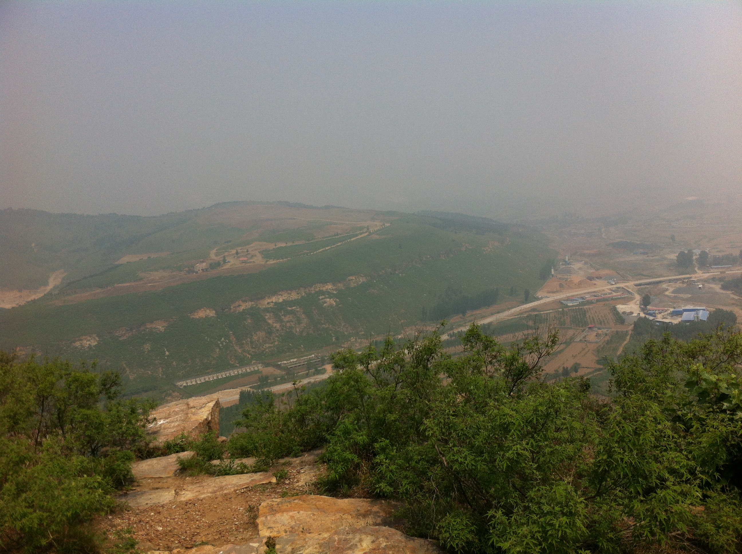 The Tang River Graben in Qinhuangdao.